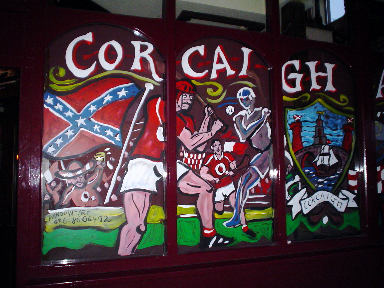 Cork - hurling window painting